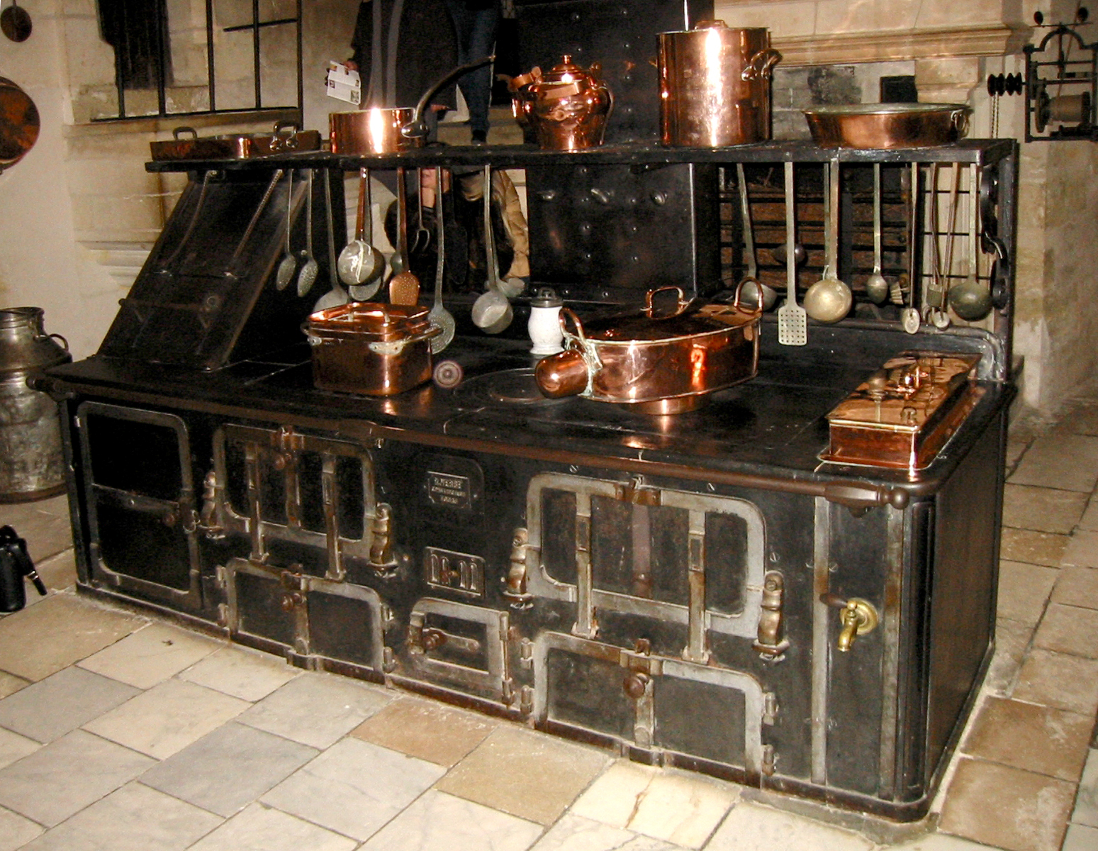 Additional search terms copper, winding, milk churn, ladle, kitchen utensil, kitchen range, stone floor